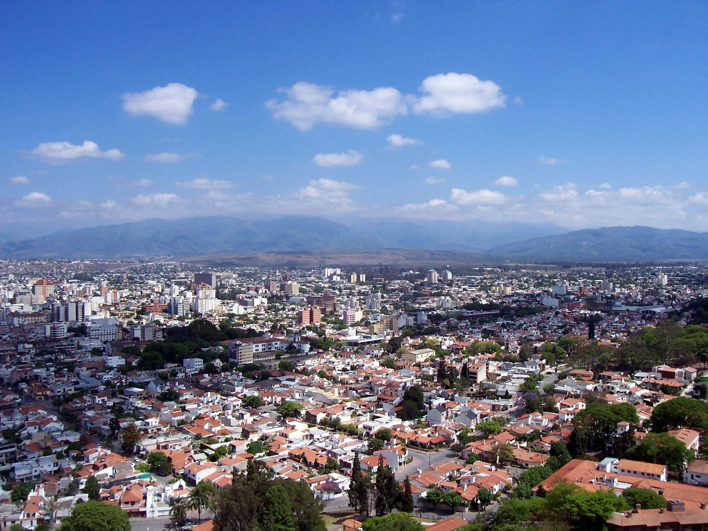 Aerial view of Salta, Argentina.